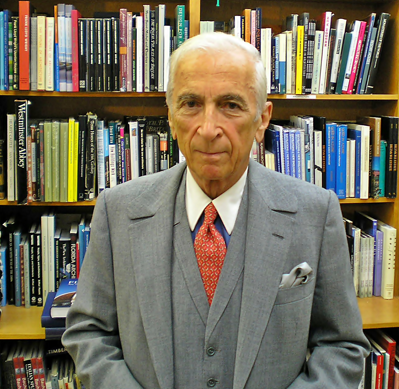 This is one of my earliest photographs for my project, taken in August 2006. At the famed Strand Bookstore, Gay Talese is a legend and I was nervous to be bold enough to take his portrait. This would be the start of my series of authors. I was milling about in the aisle next to the speaker's podium, and behind me he walked up. He was so friendly, introduced himself, and I mumbled if I could take his photo. He was happy to do so. I took a few shots, and then he went to speak. An encouraging first experience. In 2007 I would sit with him at his kitchen table to discuss the awful state of American journalism. This photo is included in my '100 People I Photographed for the Creative Commons' set of my favorites shots out of the thousands of people I have photographed. (About David Shankbone)